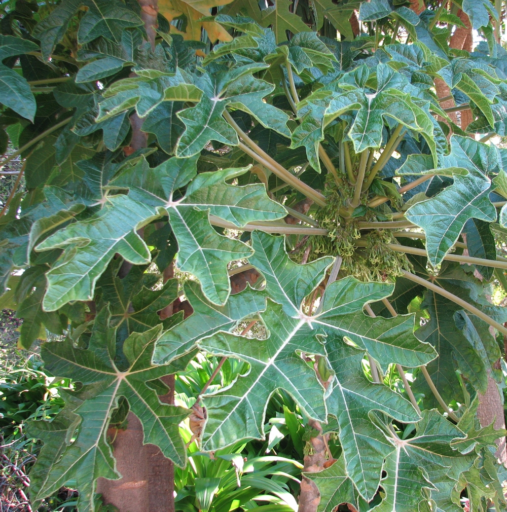 Vasconcellea pubescens (cultivated, labelled as Carica pubescens Mountain Paw Paw), Geelong Botanic Gardens, Geelong, Victoria, Australia